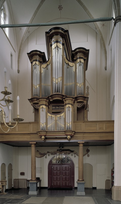 Flentrop organ St. Andrew church Hattem